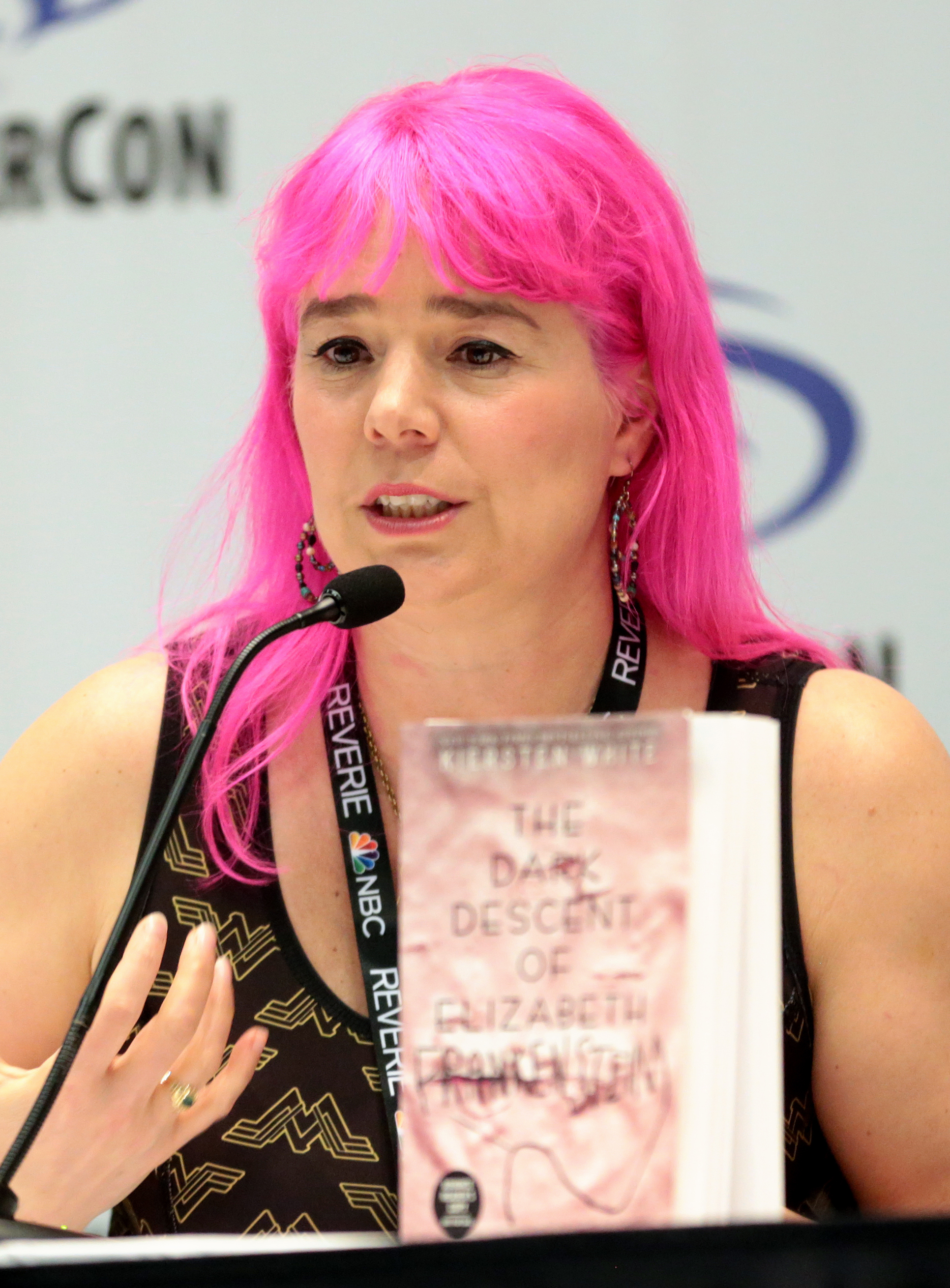 Laini Taylor speaking at the 2018 WonderCon in Anaheim, California.